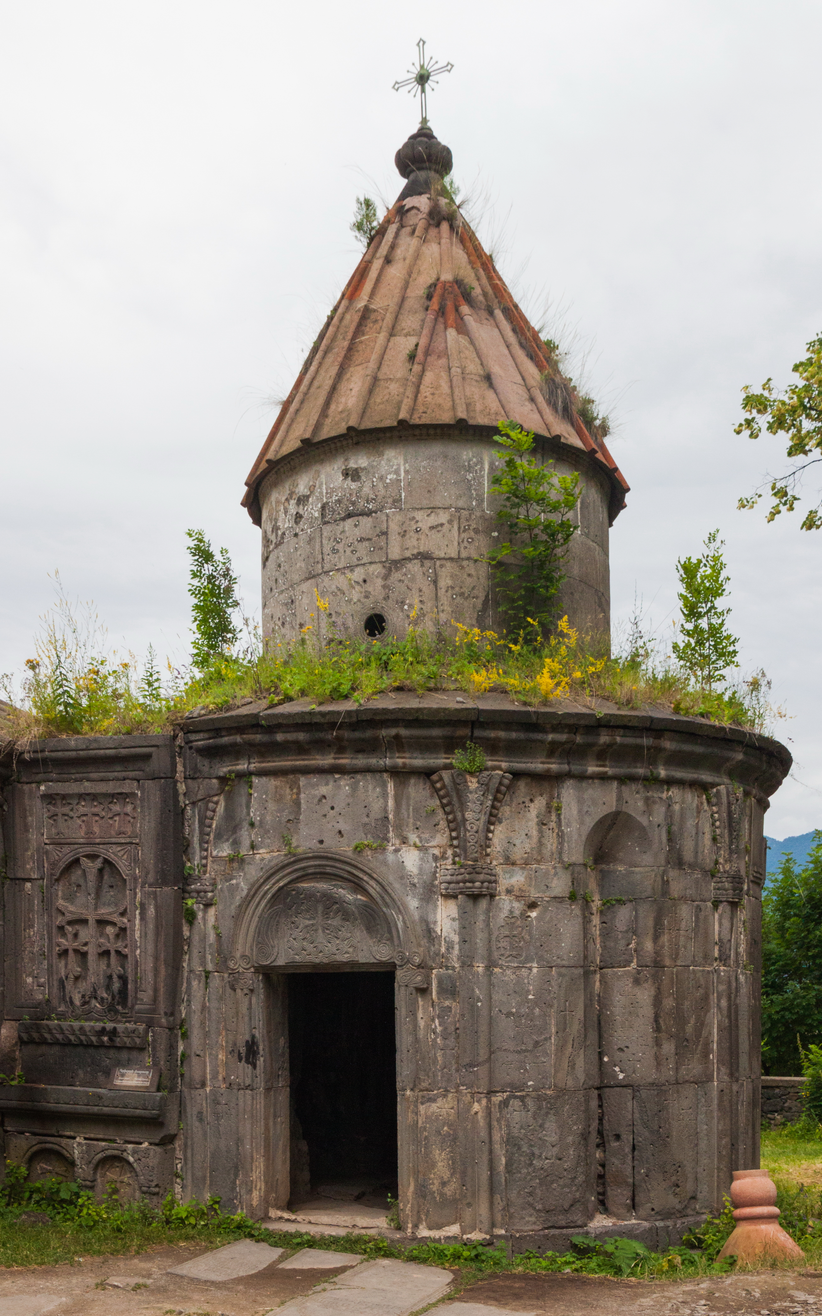 St. Grigor chapel. Sanahin Monastery. Sanahin, Lori Province, Armenia.